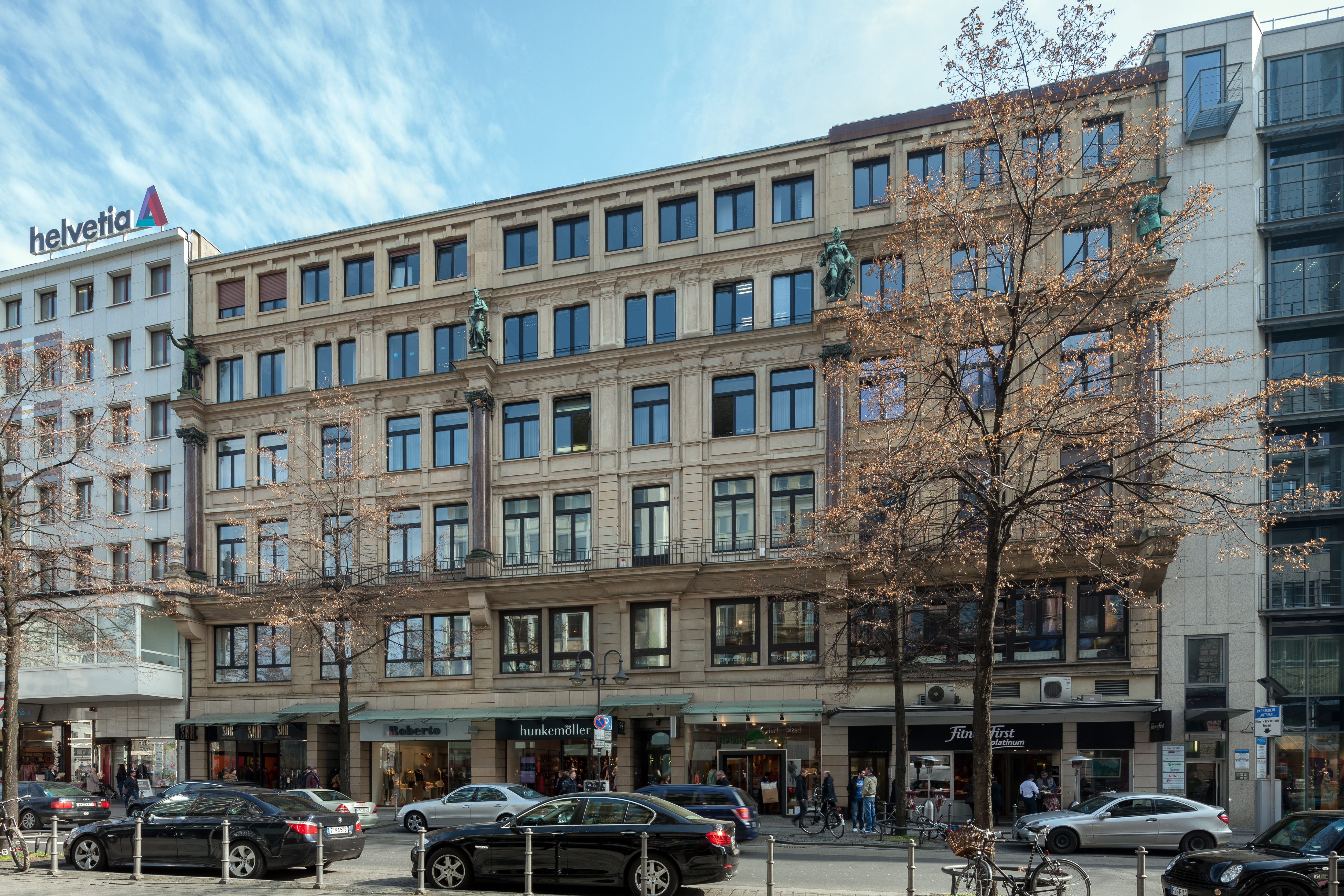 Frankfurt on the Main: Kaiserstraße (Emperor Street) 3–5a as seen from the northwest